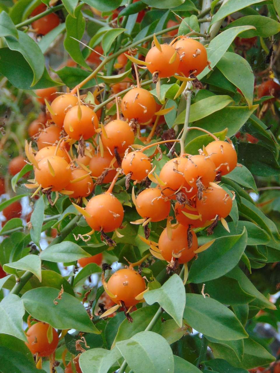 Centennial Park Conservatory, Toronto Please respect author's moral rights by not changing this description or the image title.